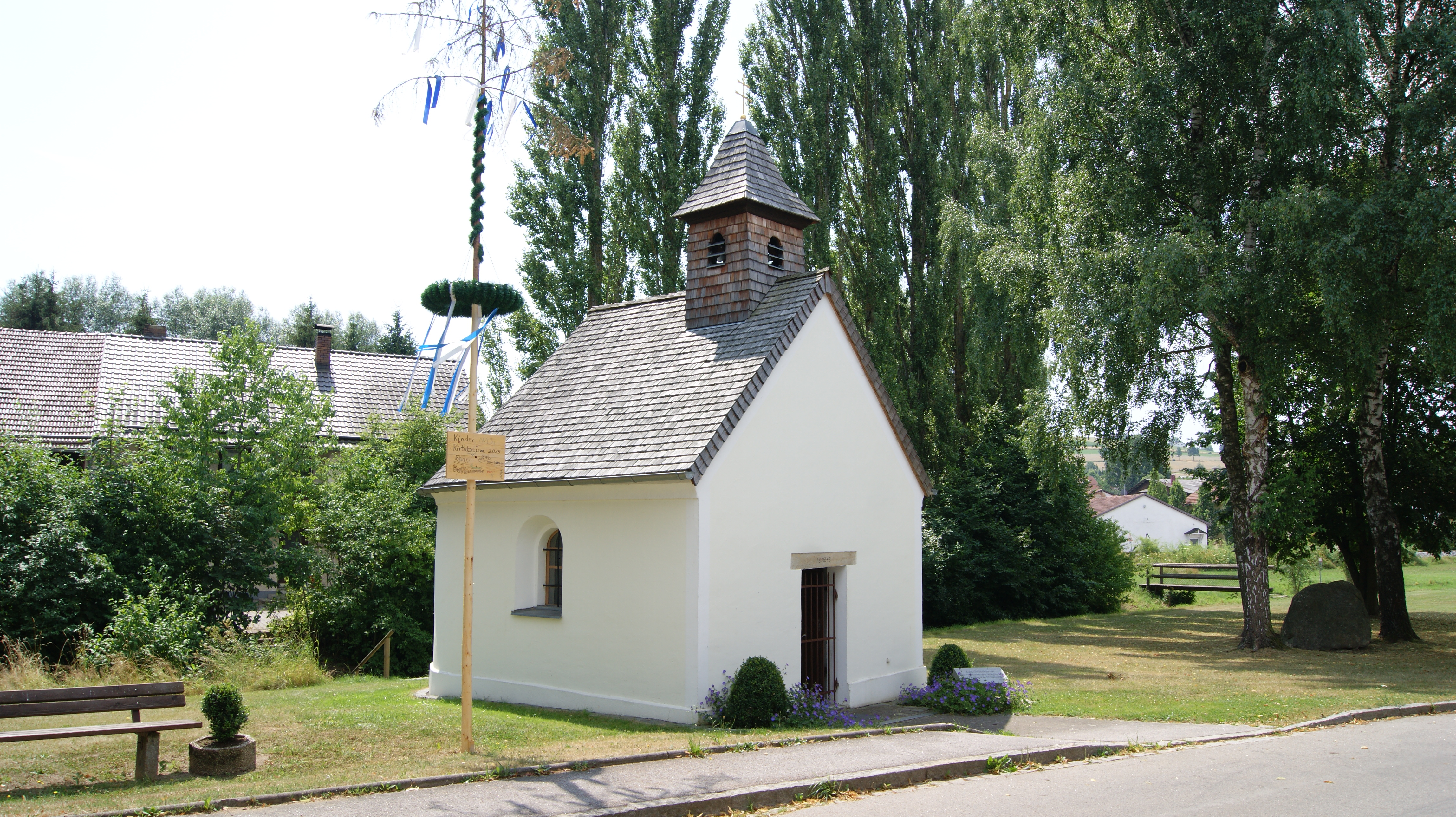 Chapel Am Anger near the "Katzbach" in Willmering in the administrative district of Cham in Bavaria from the year 1848th. This is a photograph of an architectural monument.